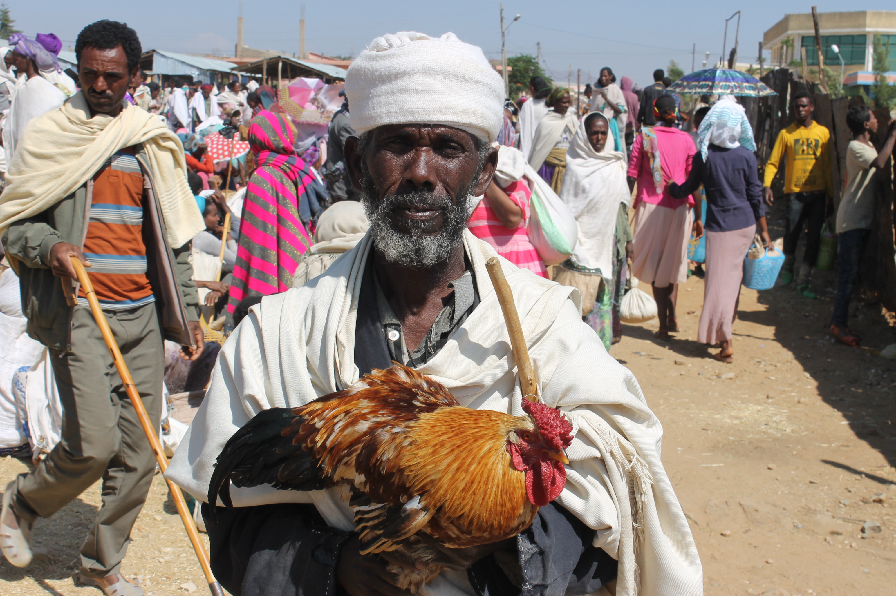 This is an image of "African people at work" from Ethiopia